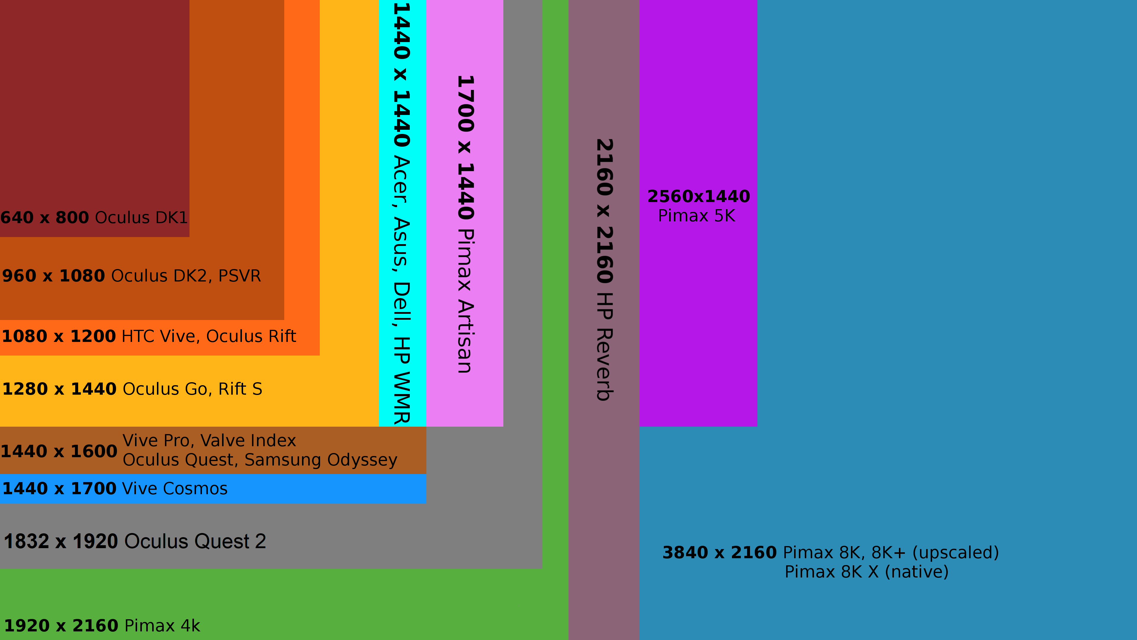 Comparison chart of per-eye headset resolutions